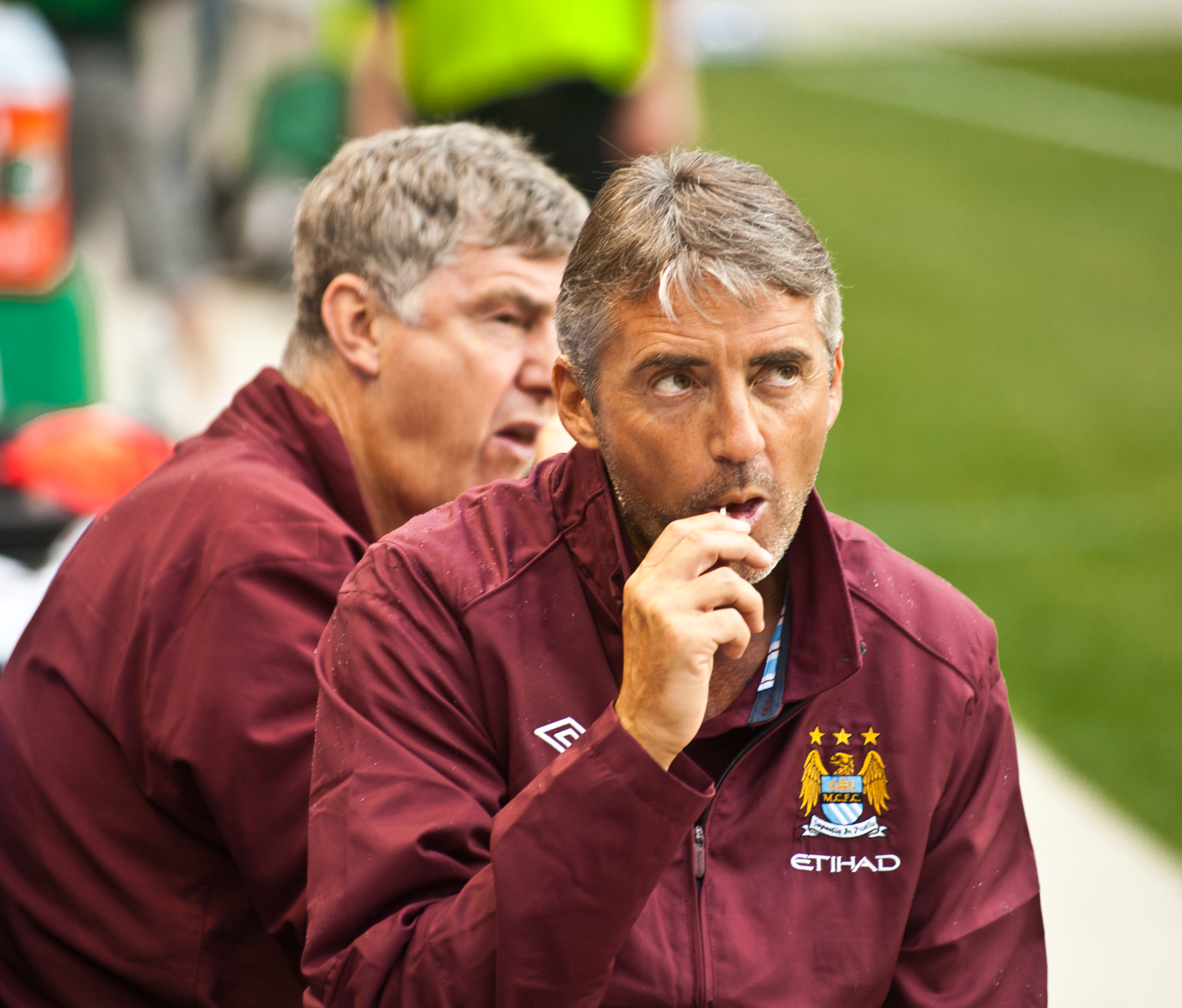 Manchester City manager Roberto Mancini eating a lolly at a friendly match against New York Red Bulls in 2010